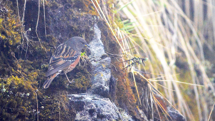 The species Alpine Accentor had been photographed from Pangolakha Wildlife Sanctuary in East Sikkim, India on 19.04.2016.